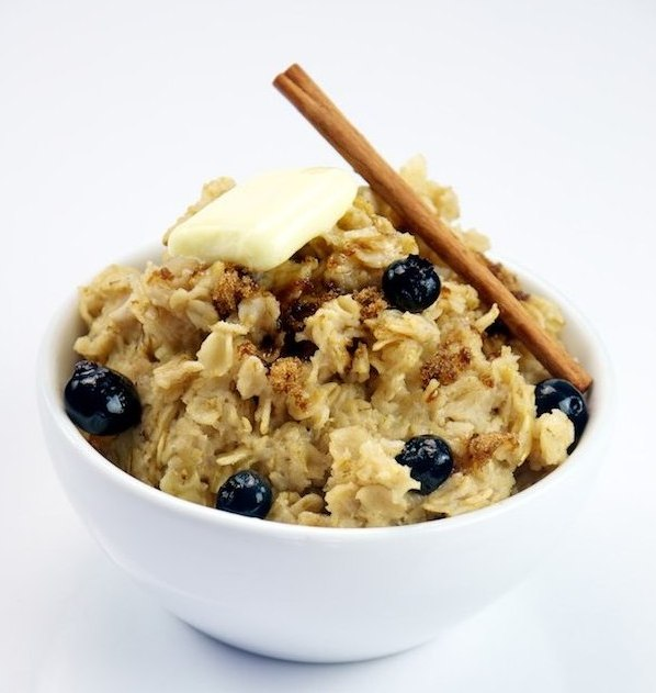 Oatmeal with blueberries